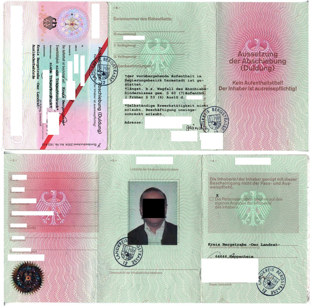 Completed form of a Suspension of deportation form (in Germany). Personal informations are removed.